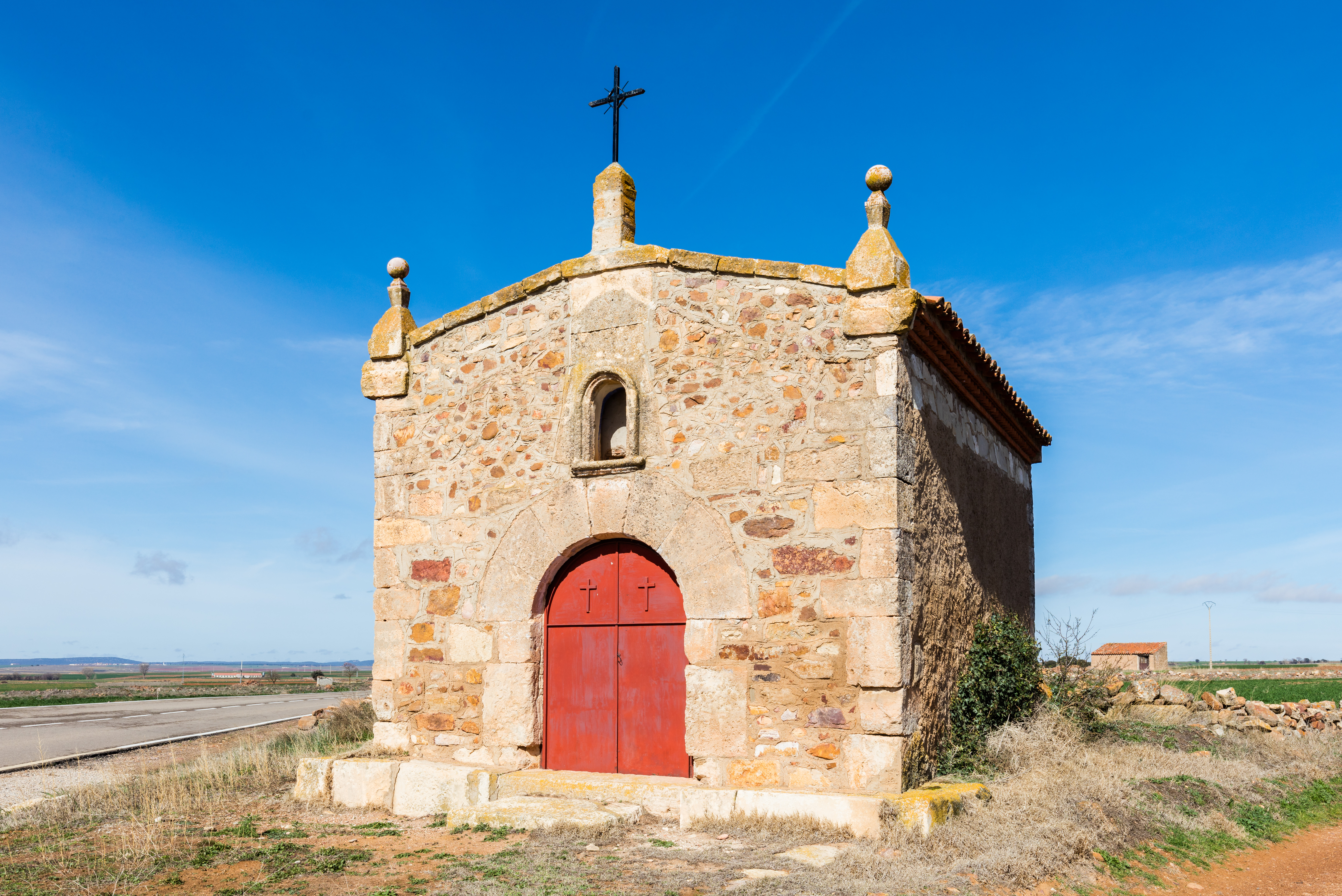 Hermitage of San Antón, Used, Zaragoza, Spain